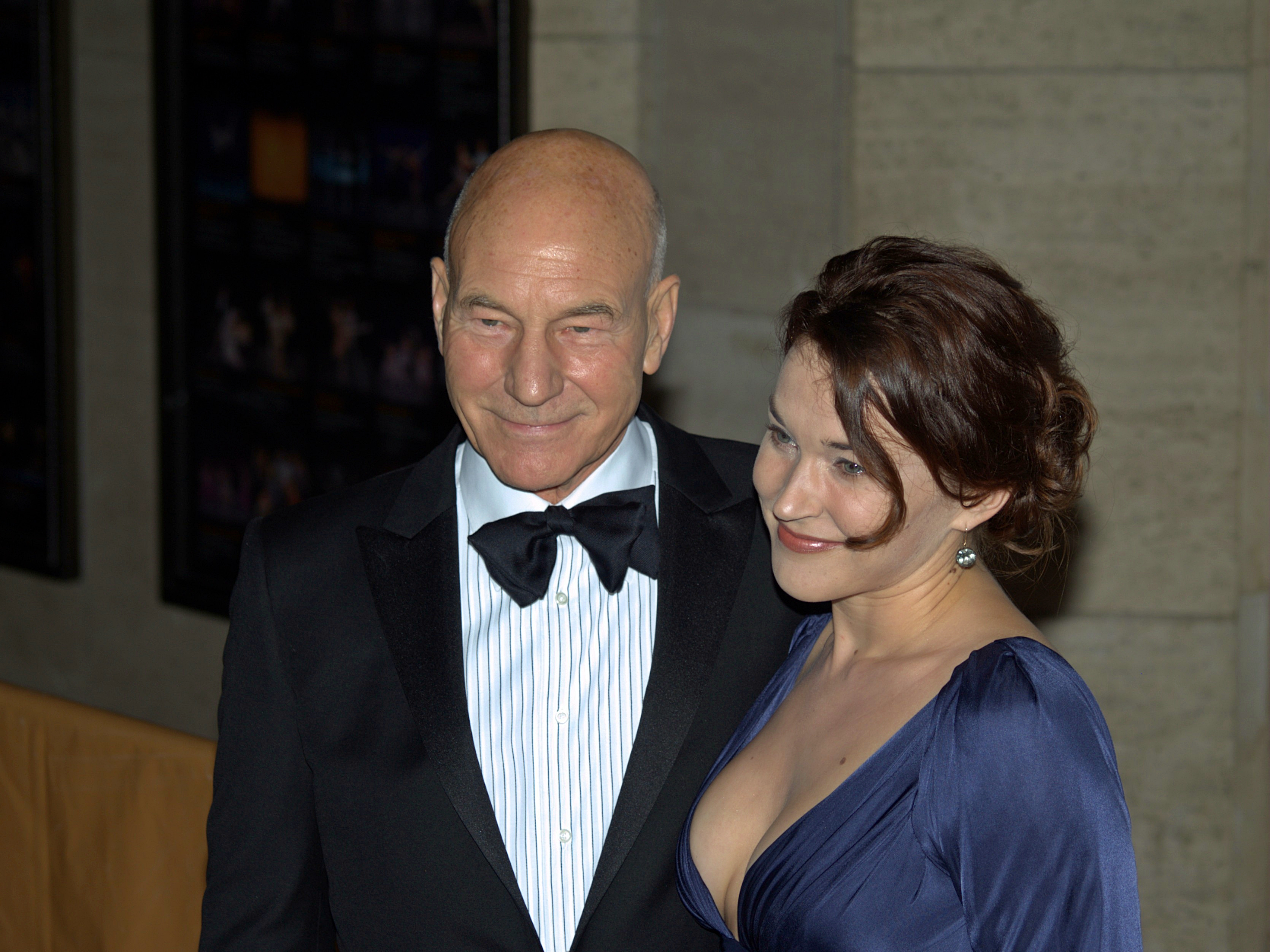 Patrick Stewart and jazz-singer Sunny Ozell at Metropolitan Opera's 2010-11 Season Opening Night - "Das Rheingold"